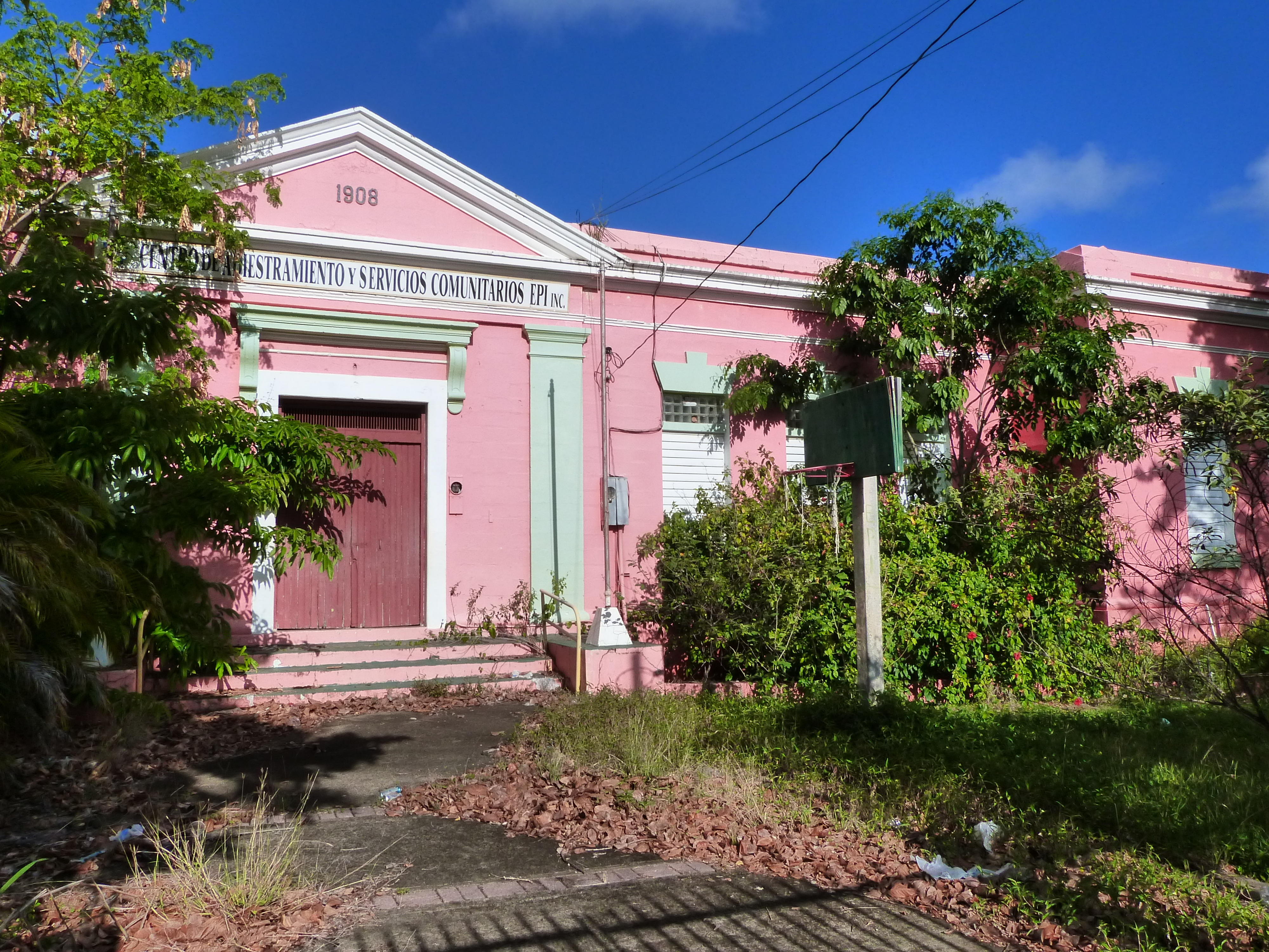 The historic Eleuterio Derkes Grammar School (built 1908), located on Calle José María Angueli in Guayama, Puerto Rico, is listed on the U.S. National Register of Historic Places.